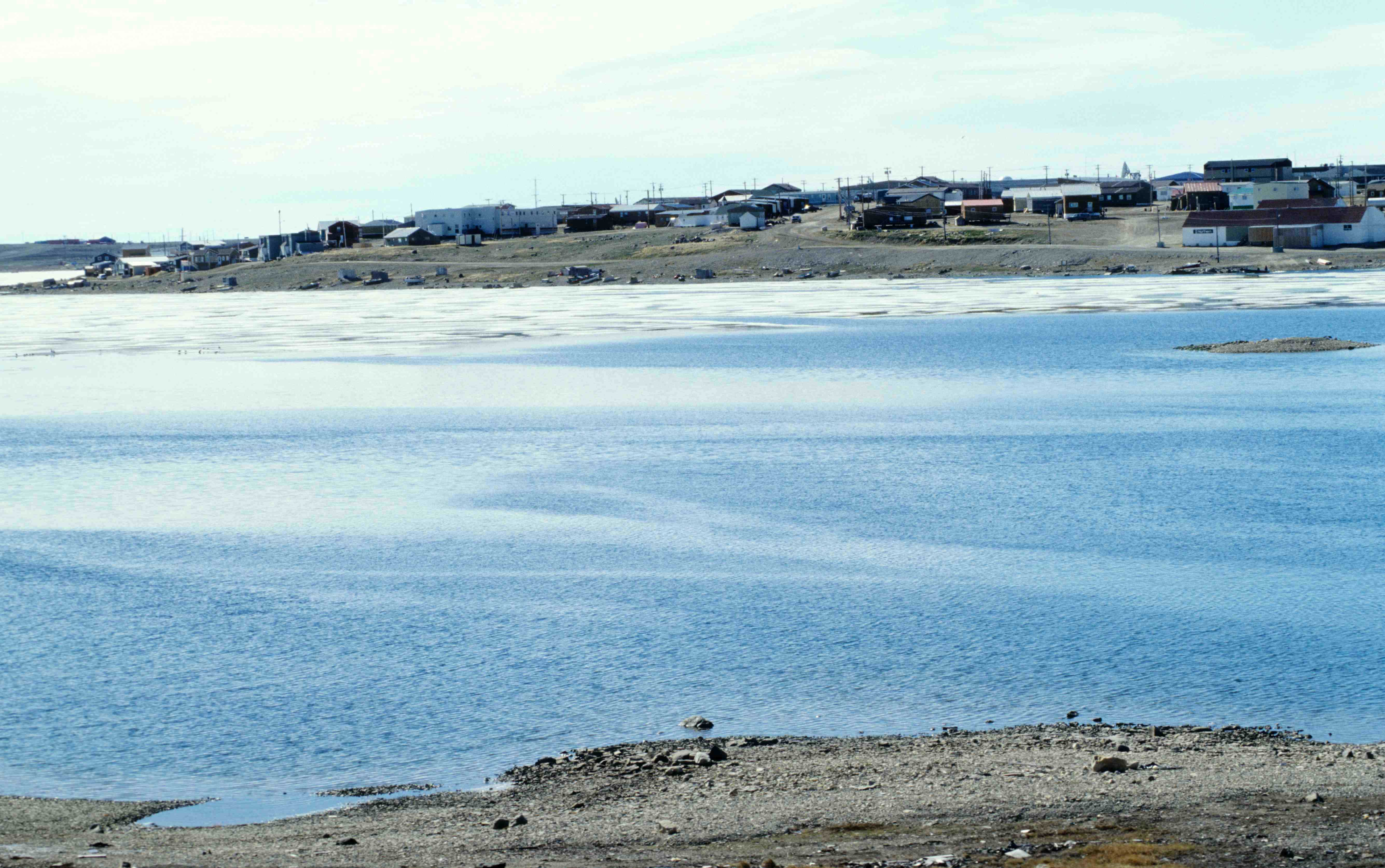 Community of Cambridge Bay (Victoria Island)